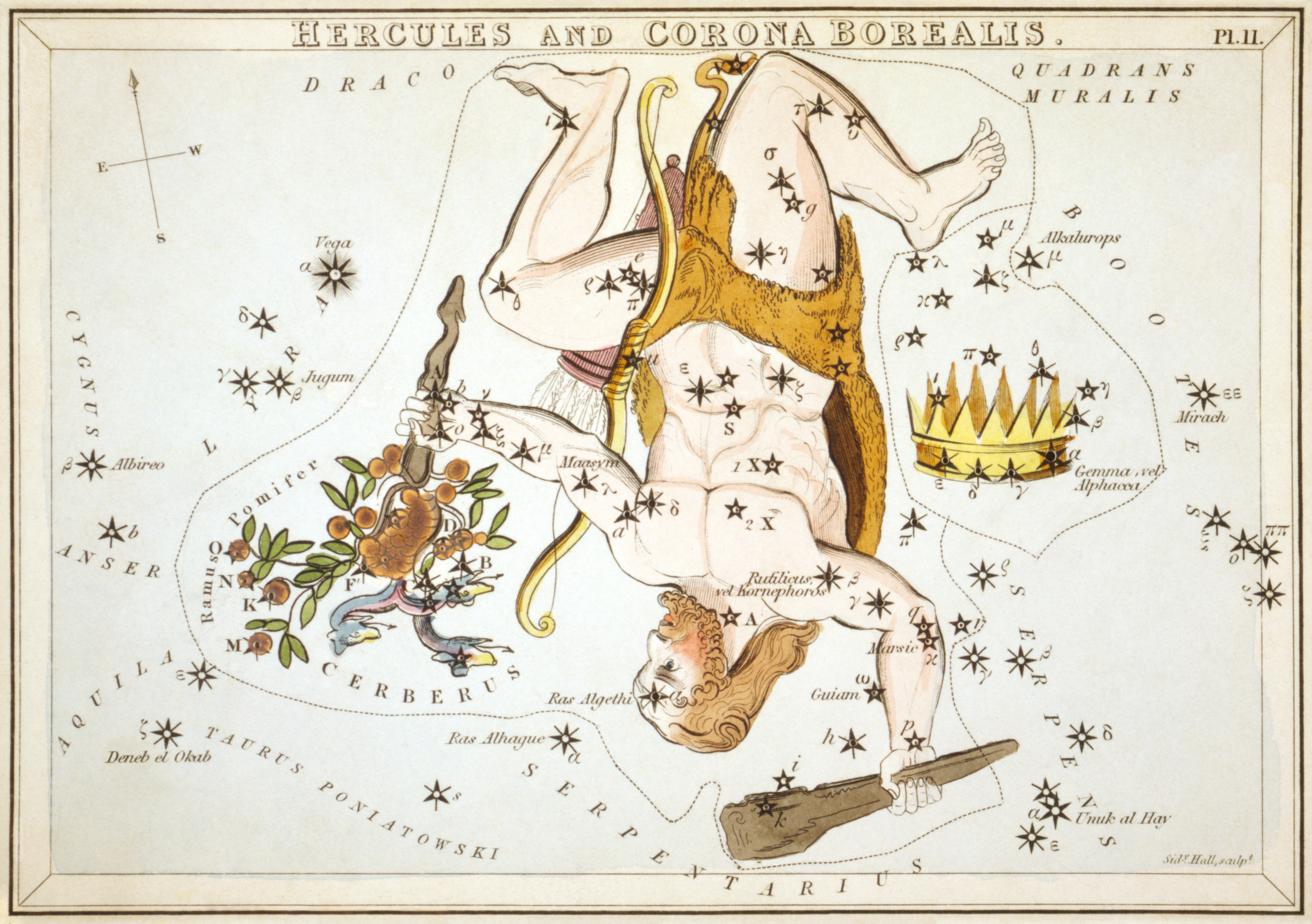 "Hercules and Corona Borealis", plate 11 in Urania's Mirror, a set of celestial cards accompanied by A familiar treatise on astronomy ... by Jehoshaphat Aspin. London. Astronomical chart, 1 print on layered paper board : etching, hand-colored.